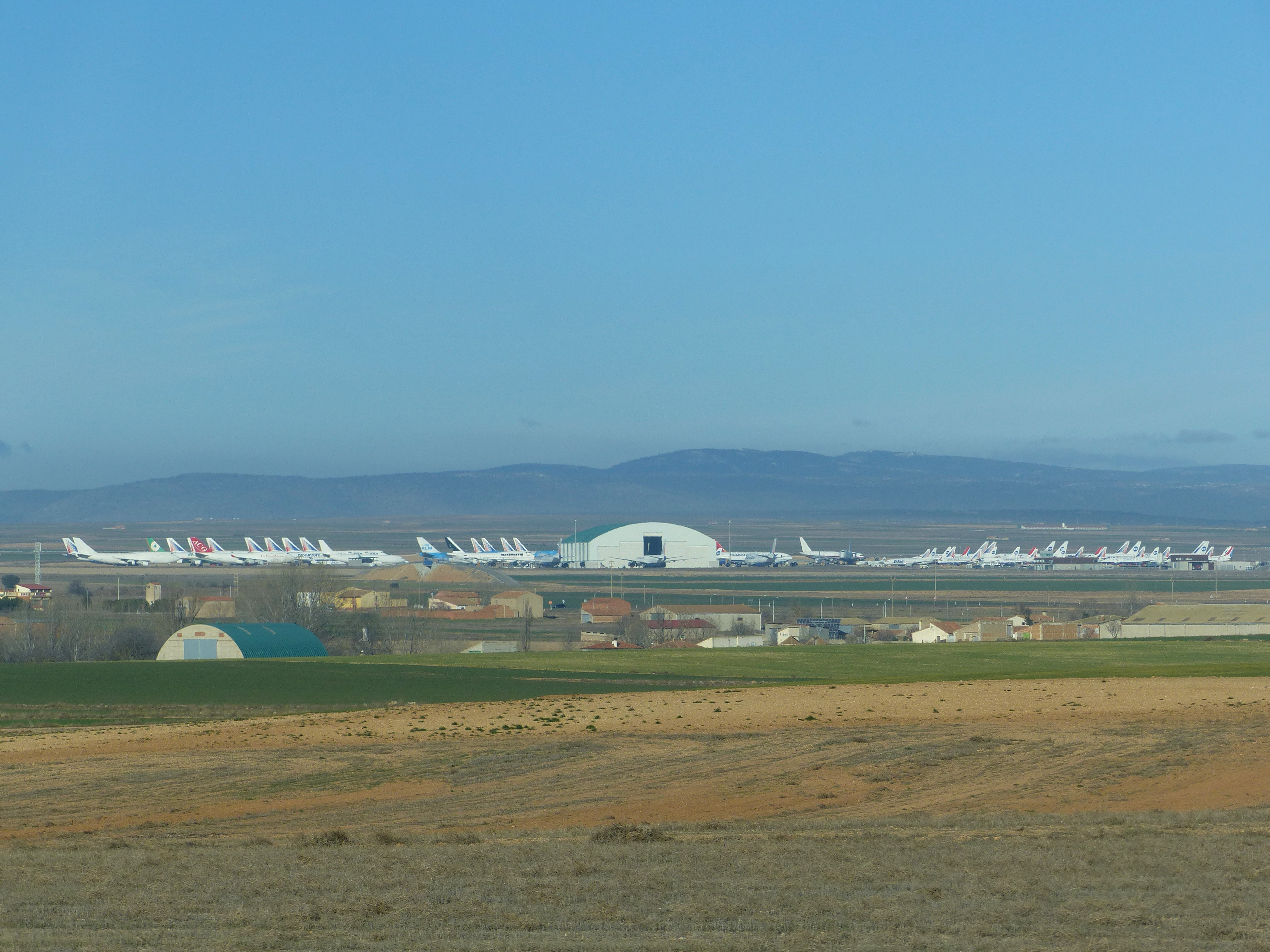 March 4th 2016. View of the field from one of the approach roads, looking from the east.